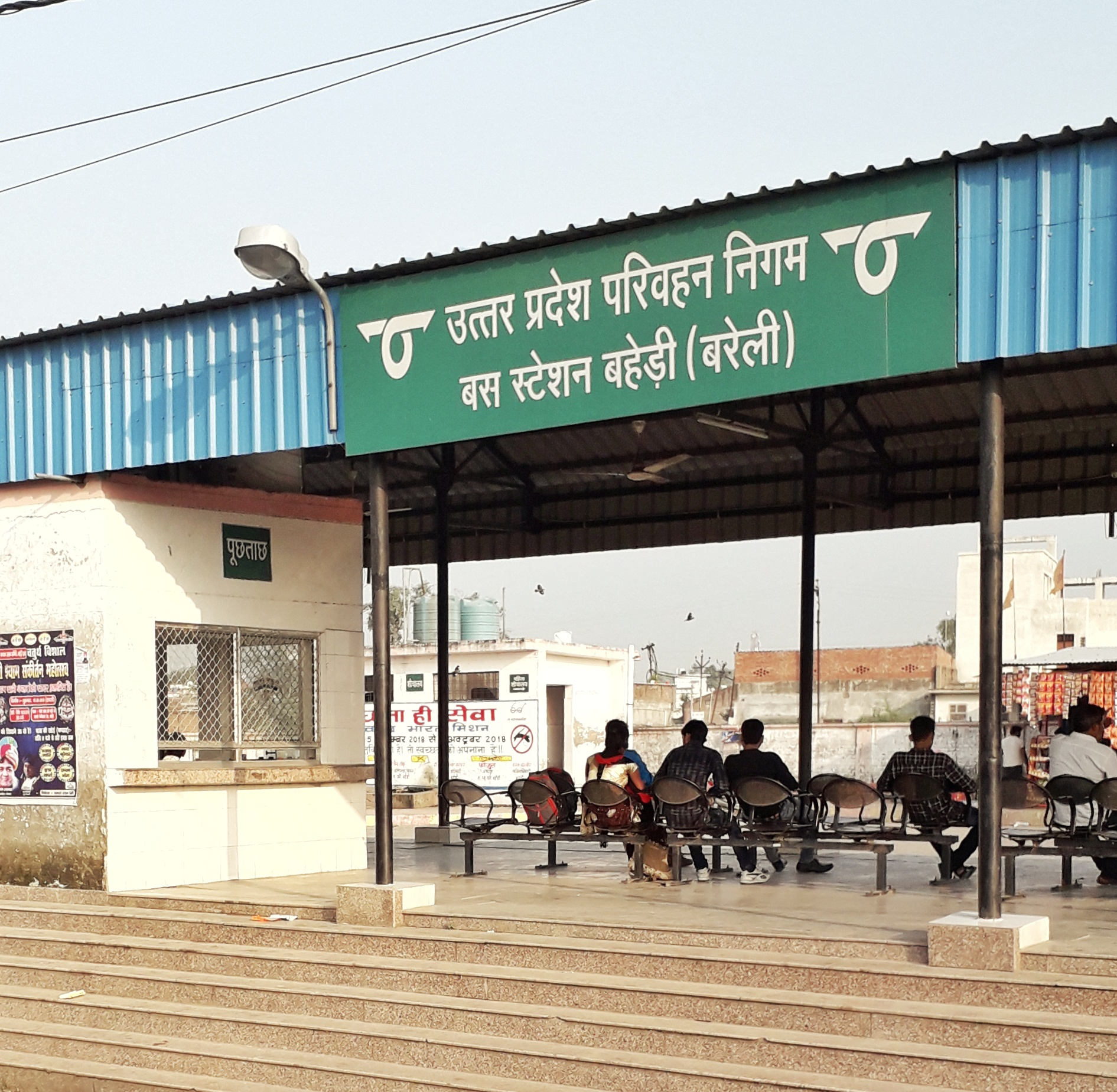 Bahedi Bus Station, Bareilly